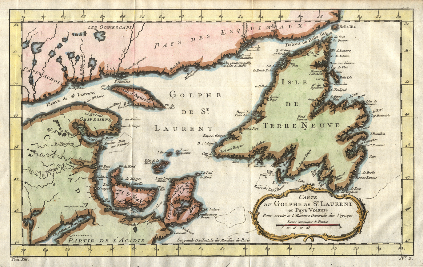 The Gulf of the St Lawrence, with Newfoundland The gulf is bounded on the north by the Labrador Peninsula, to the east by Newfoundland, to the south by the Nova Scotia peninsula and Cape Breton Island, and to the west by the Gaspé and New Brunswick. It contains Anticosti Island, Prince Edward Island, and the Magdalen Islands. Half of Canada's ten provinces the Maritime provinces of New Brunswick, Nova Scotia, and Prince Edward Island, as well as Quebec and Newfoundland and Labrador adjoin the Gulf.